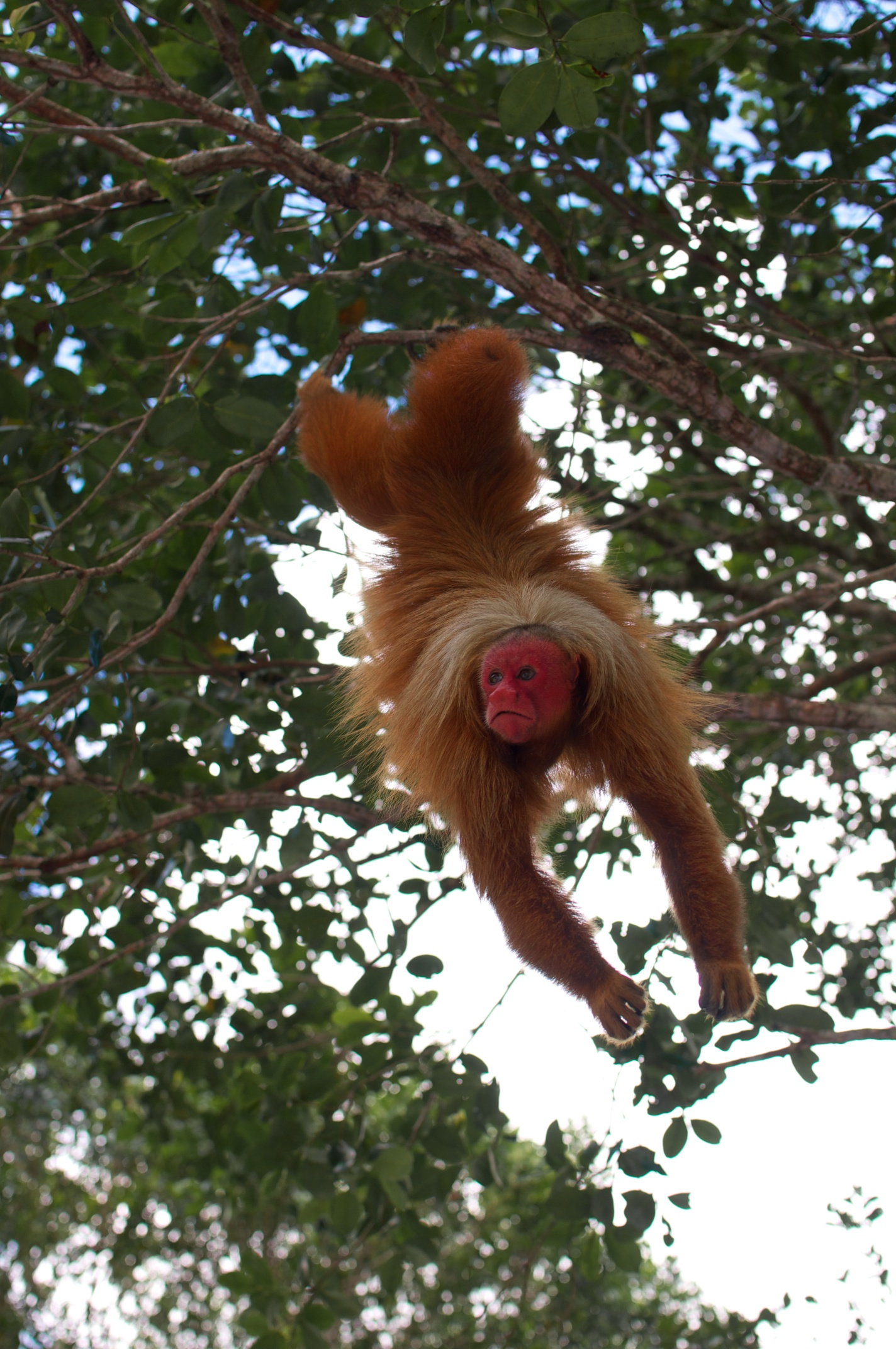 Red uakari (Cacajao calvus novaesi) in Brazil.